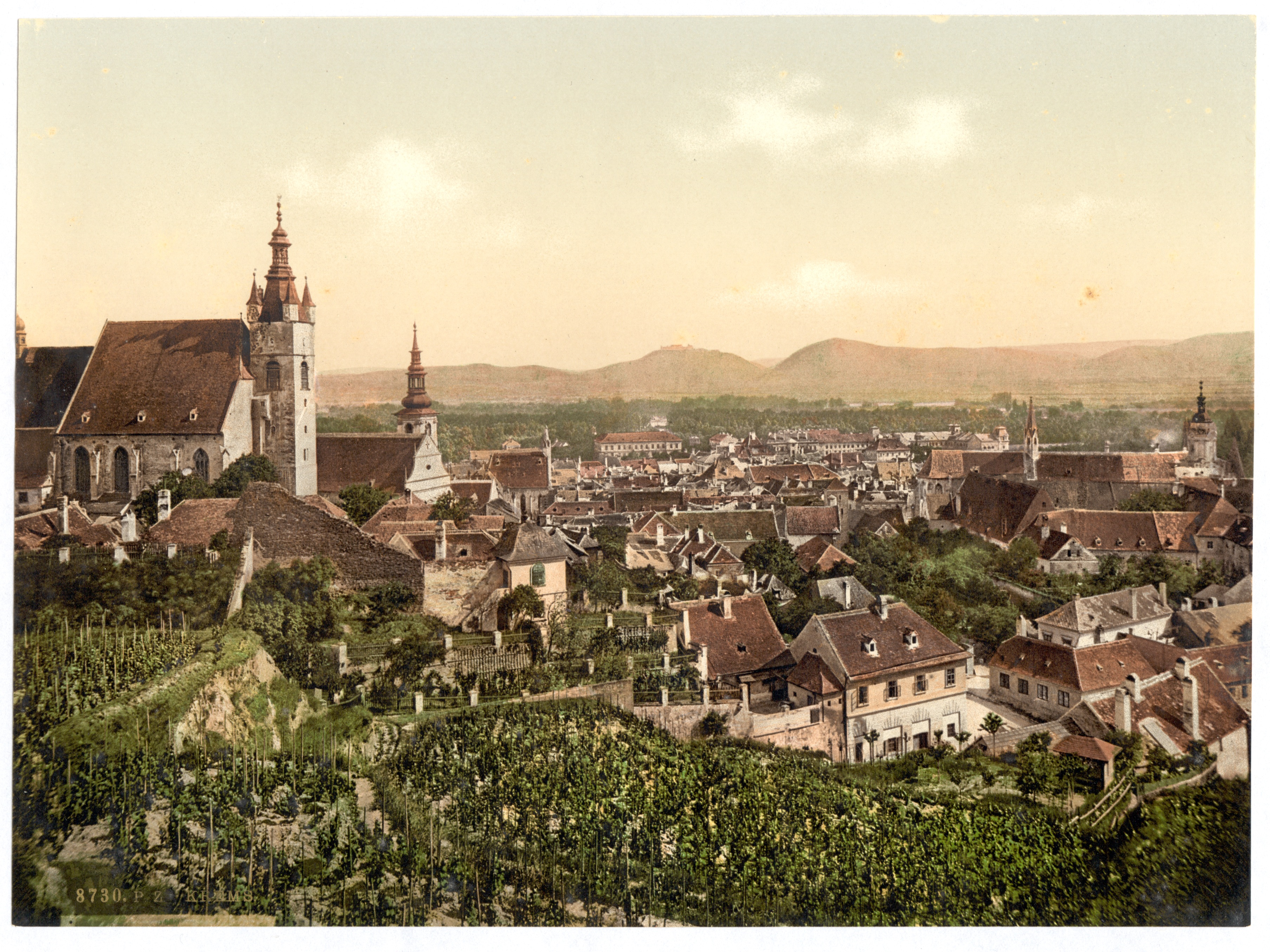 Print no. "8730".; Forms part of: Views of the Austro-Hungarian Empire in the Photochrom print collection.; Title devised by Library staff.